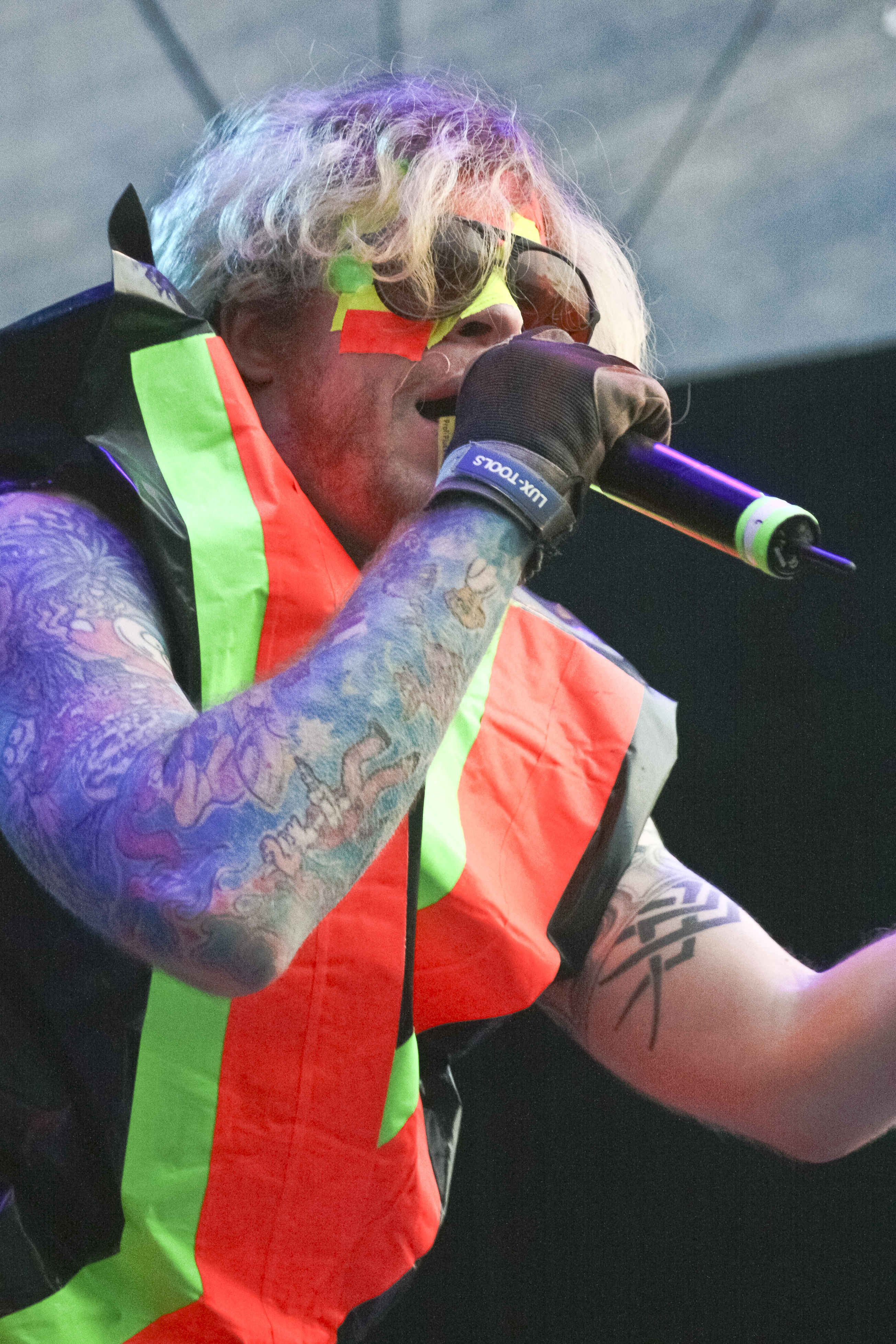 Deichkind at Juicy Beats Festival, Dortmund/Germany